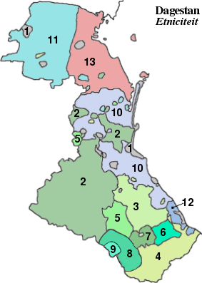 Ethnical map of Dagestan. Made by myself in the Gimp, note: This image was originaly created in dec. 2003 for the Dutch Wikipedia.